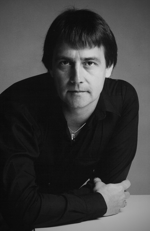 Black and white photo of Norbert Vesak taken by Walter Swarthout, photographer